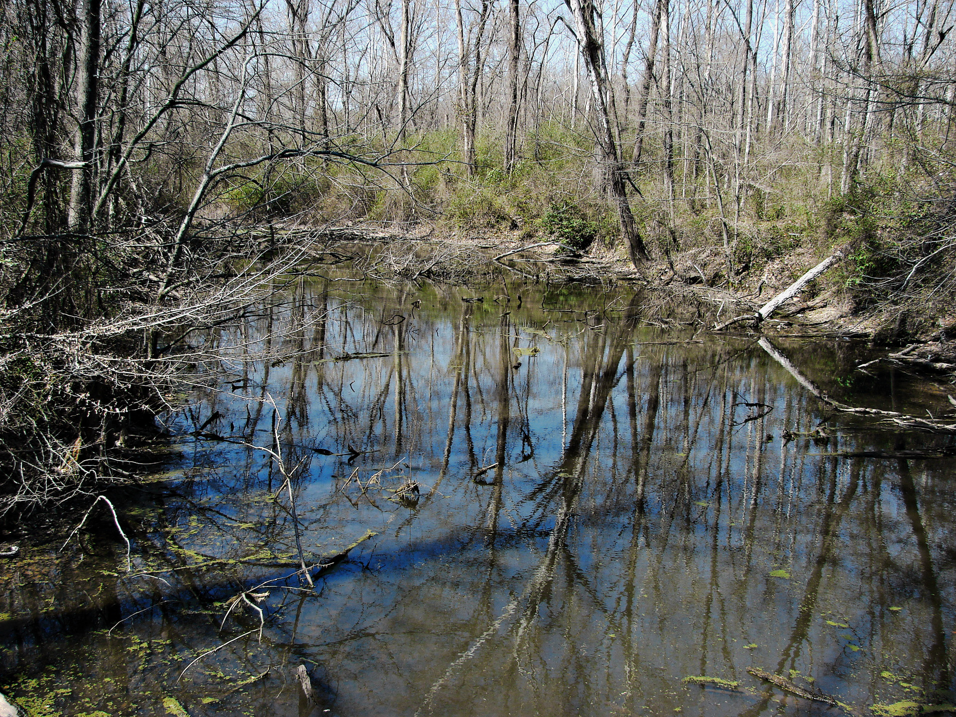 The Wolf River in Tennessee at Germantown